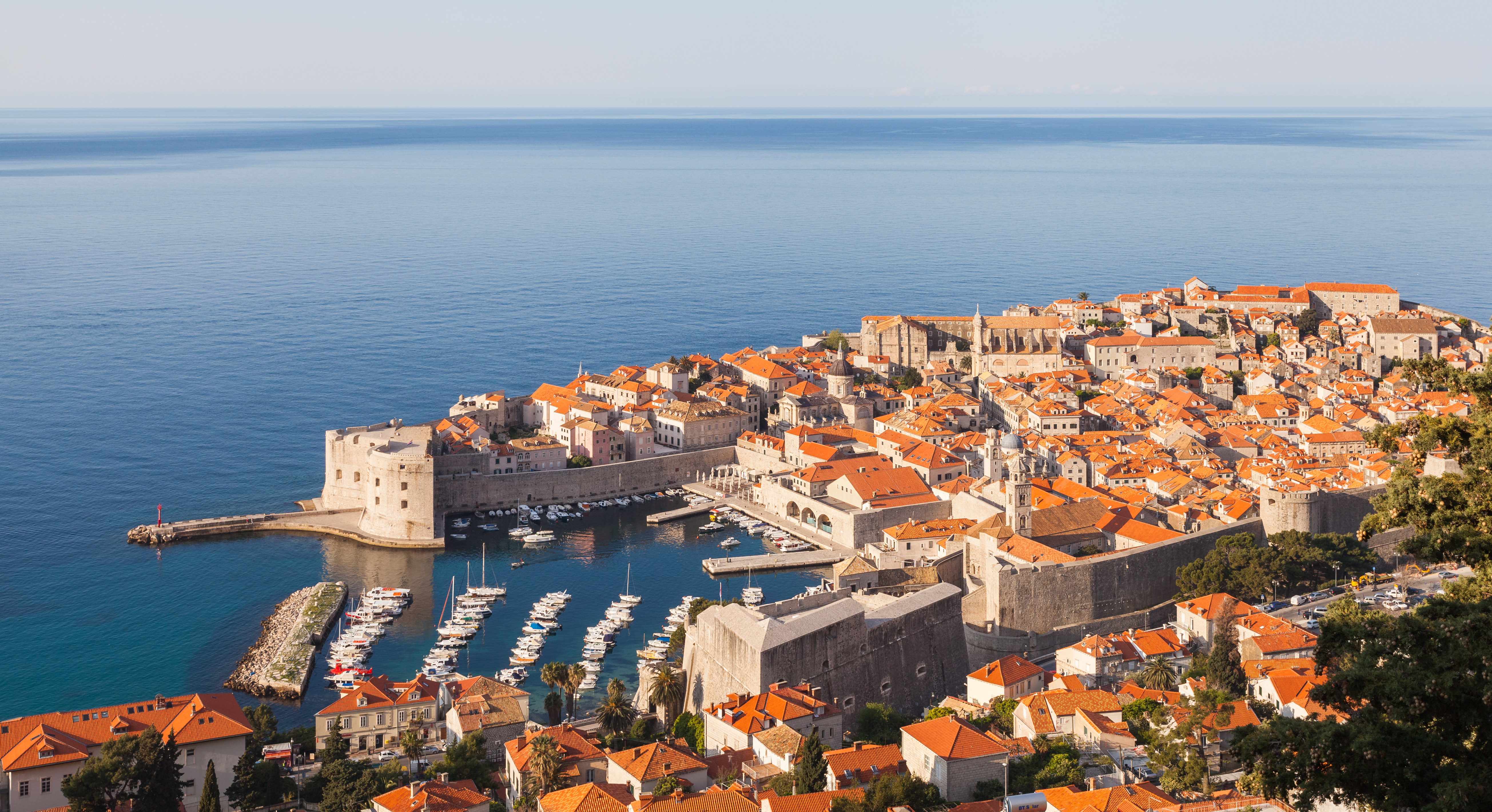 Early morning view of the Old Town of Dubrovnik and its city walls, an UNESCO Heritage Site since 1979. The former Republic of Ragusa was a maritime republic centered on the city of Dubrovnik (Ragusa in Italian and Latin) in Dalmatia (today in southernmost modern Croatia), that existed from 1358 (end of the sovereignty of Venice) to 1808 (conquered by Napoleon's French Empire). It reached its commercial peak in the 15th and the 16th centuries, under the protection of the Ottoman Empire. It had a population of about 30,000 people, of whom 5,000 lived within the city walls.